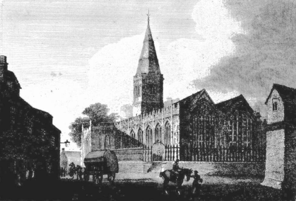 St Mary's Church in Truro, Cornwall. Now the site of Truro Cathedral.